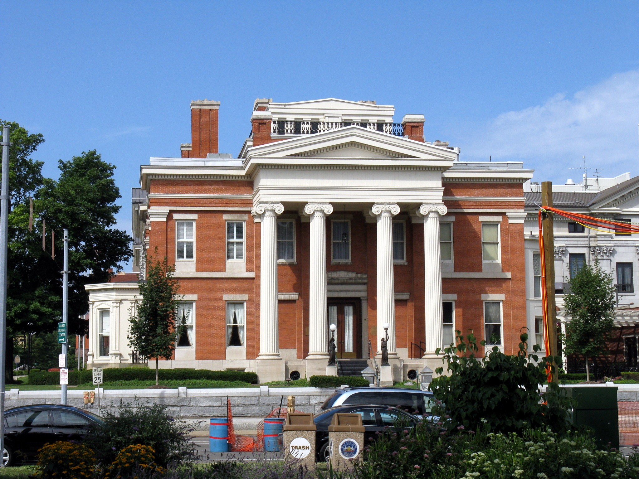 The former Charles Manning Reed Mansion — now housing the Erie Club. Located facing the Erie public square — at 524 Peach Street in Erie, Pennsylvania. The Neoclassical Greek Revival style mansion is listed on the National Register of Historic Places.